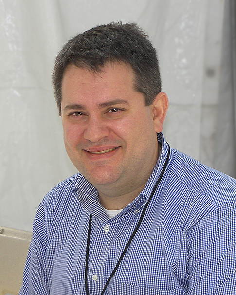 Alec Foege at the 2008 Texas Book Festival, Austin, Texas, United States.